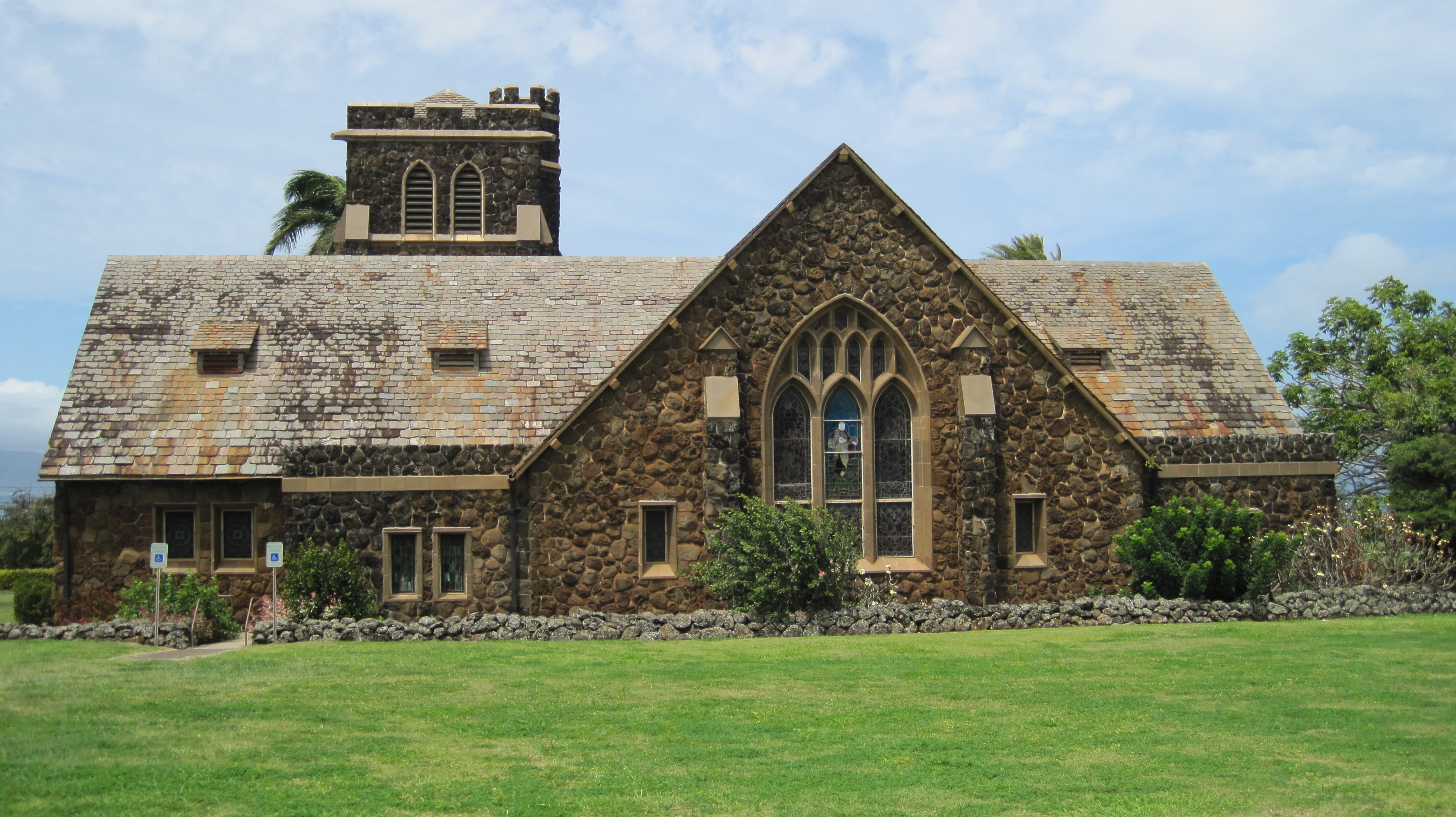 South side, Makawao Union Church, 1445 Baldwin Ave., Makawao, Hawaii, built 1917, architect C.W. Dickey, on National Register of Historic Places